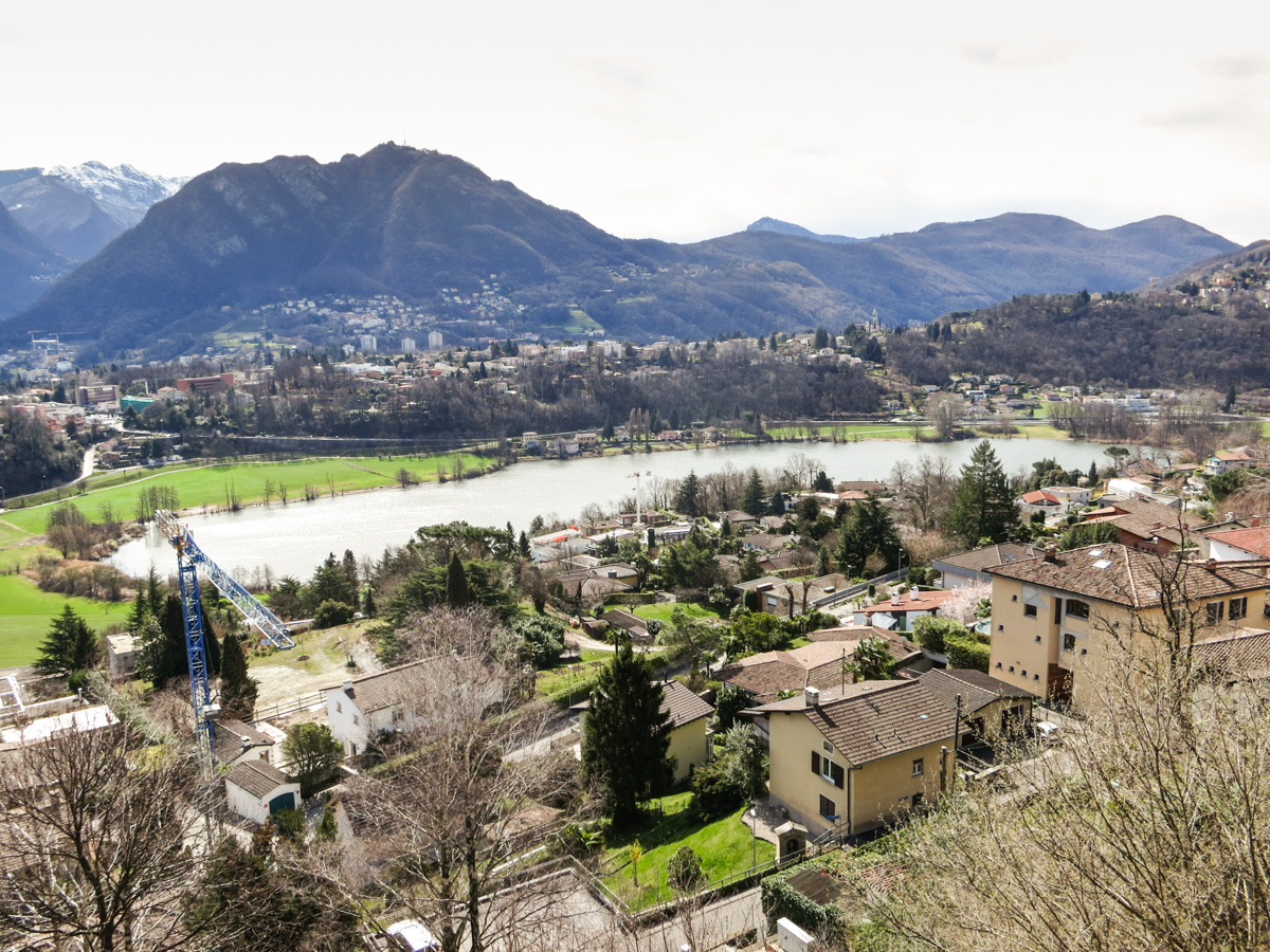 Lake of Muzzano with San Salvatore mountain near Lugano, Tessin, Switzerland